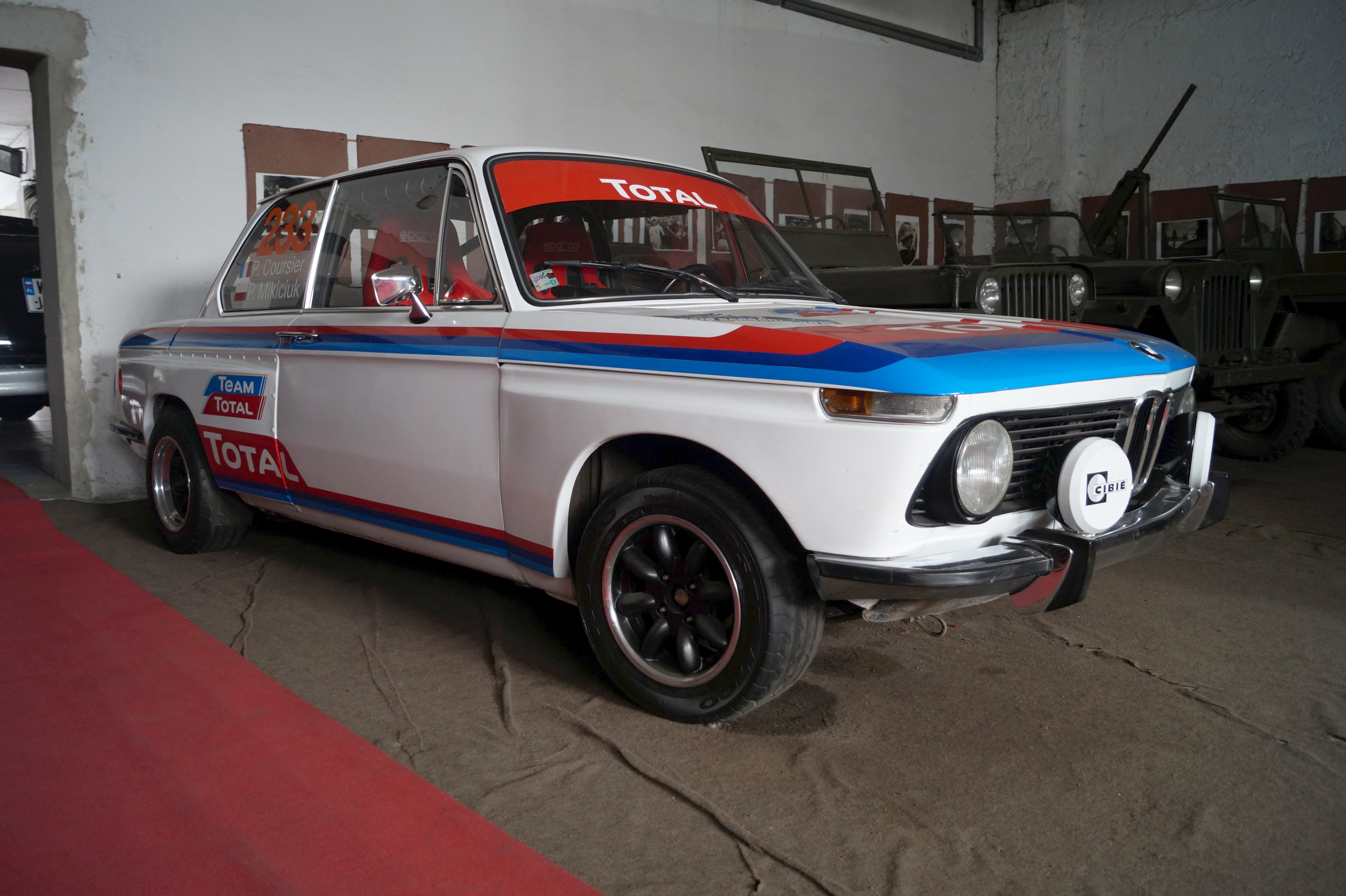 This photo was taken during Automotive Wikiexpedition 2016 set up by Wikimedia Polska Association.You can see all photographs in category Wikiekspedycja motoryzacyjna 2016. English | Polski | +/− BMW 1502 w Muzeum Motoryzacji i Techniki w Otrębusach